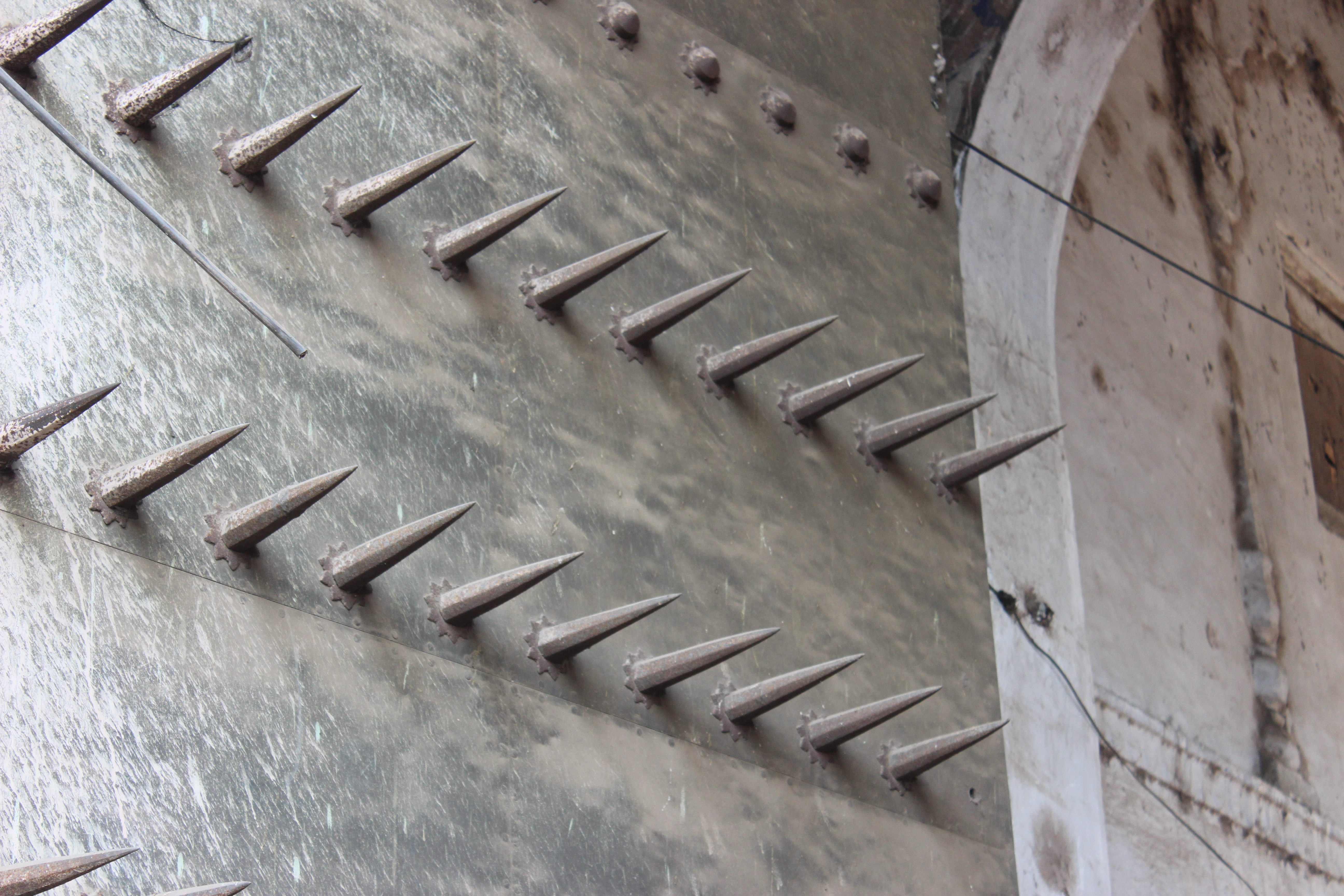 Roof painting at Sadar Manjil Bhopal